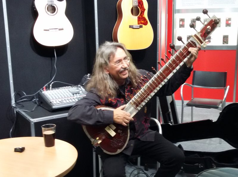 Peter Bursch at the Musikmesse in Frankfurt (Germany), 2015-05-16.